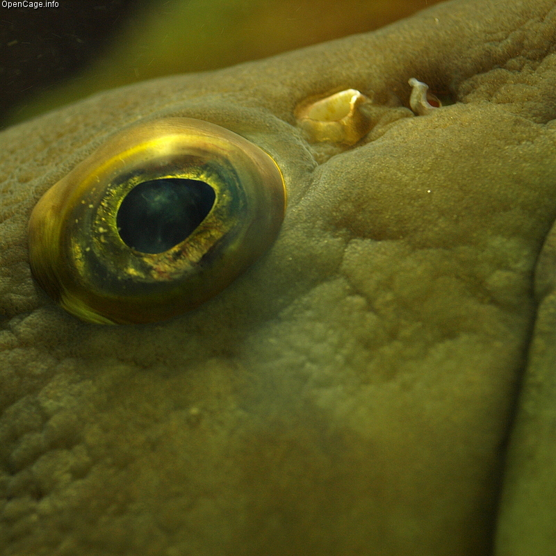 Longtooth grouper Epinephelus bruneus (Bloch, 1793)